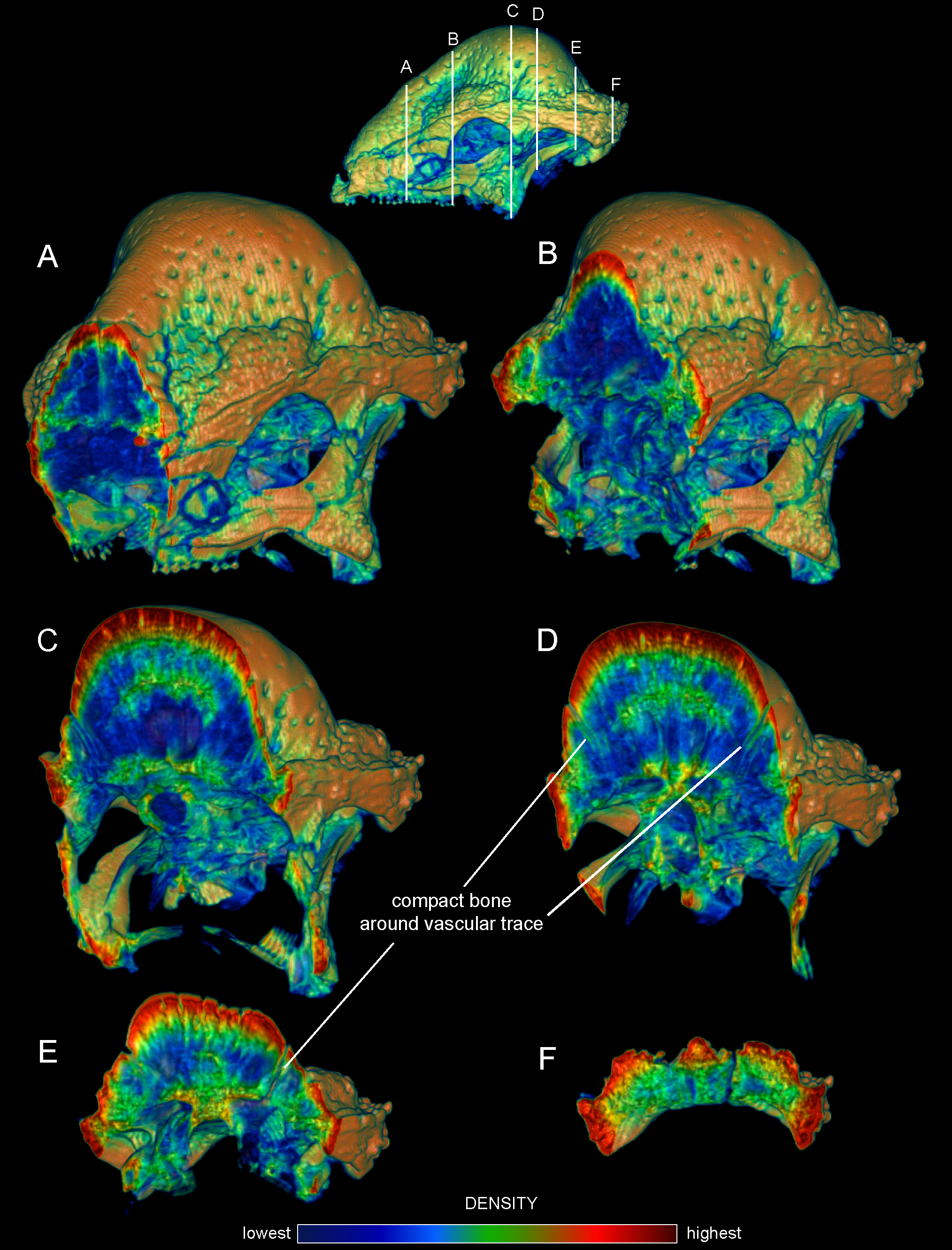 Internal densities of bone in Stegoceras validum (UA 2). Transverse CT sections from anterior (A) to posterior (F) through the cranium of Stegoceras validum (UA 2) seen in anterior oblique view. Inset CT reconstruction in lateral view (top) depicts section positions. Density and thickness of cortical bone increase towards the apex of the dome from the periphery, anteroposteriorly (B–D) and medially (C, D). Trabeculae radiate roughly perpencidular to the dome's outer surface, evident in the low-density (blue) region posterior to the orbit (B–E). Note that density of superficial bone may be inflated by beam hardening, but a dense, deep compact layer is definitively present. Dense compact bone (Hounsfield values of approximately 2000) surrounds presumed vascular traces, forming tubes that empty onto the dome surface; three of these are visible in D and E. These tubular structures recall struts within artiodactyl cranial sinuses.